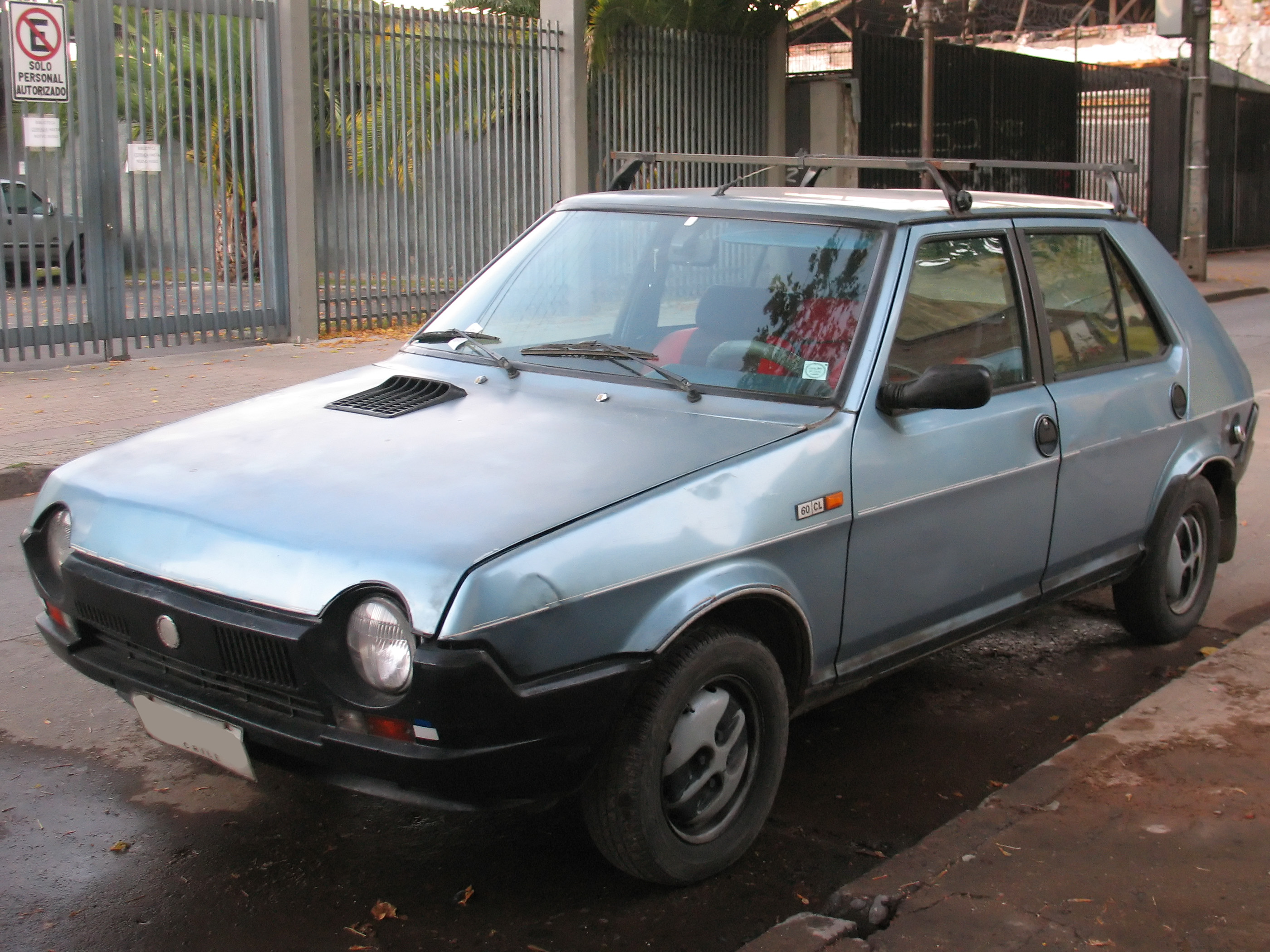 Fiat Ritmo 60 CL 1982